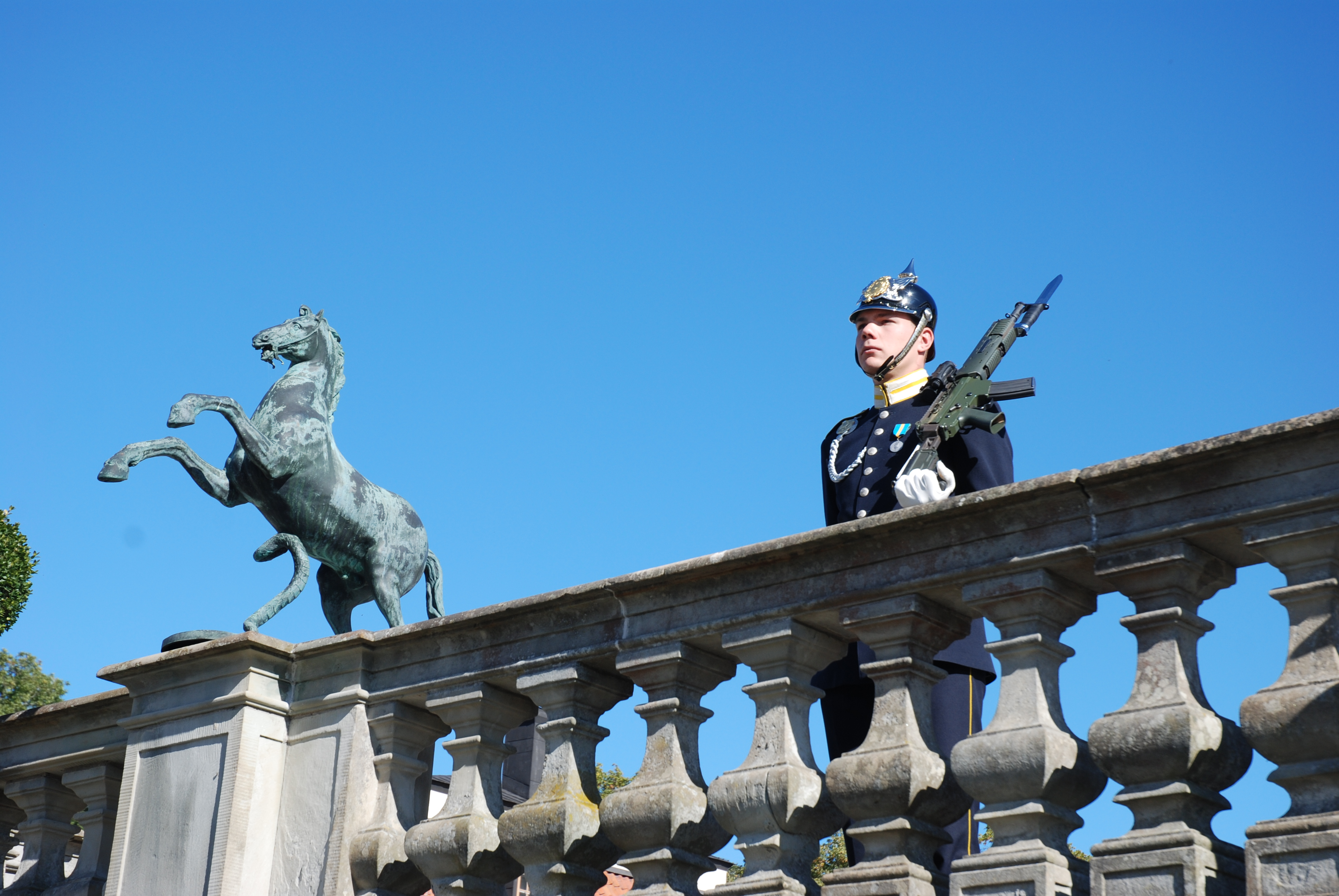 Soldier guarding residence of the King of Sweden at Drottningholm Palace, next to sculpture of 17th Cenrury sculptor Adrian de Fries